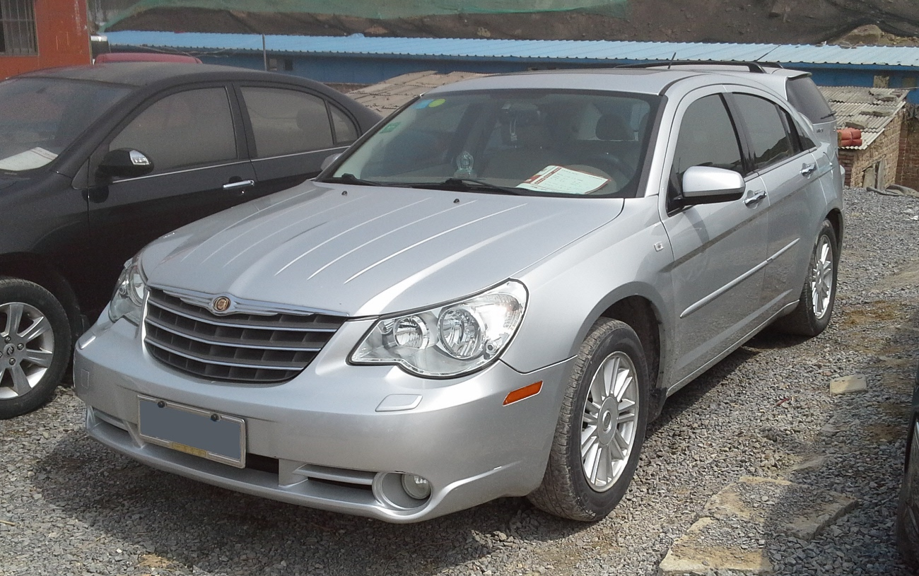 Chrysler Sebring JS photographed in Zhengzhou, Henan province, China.